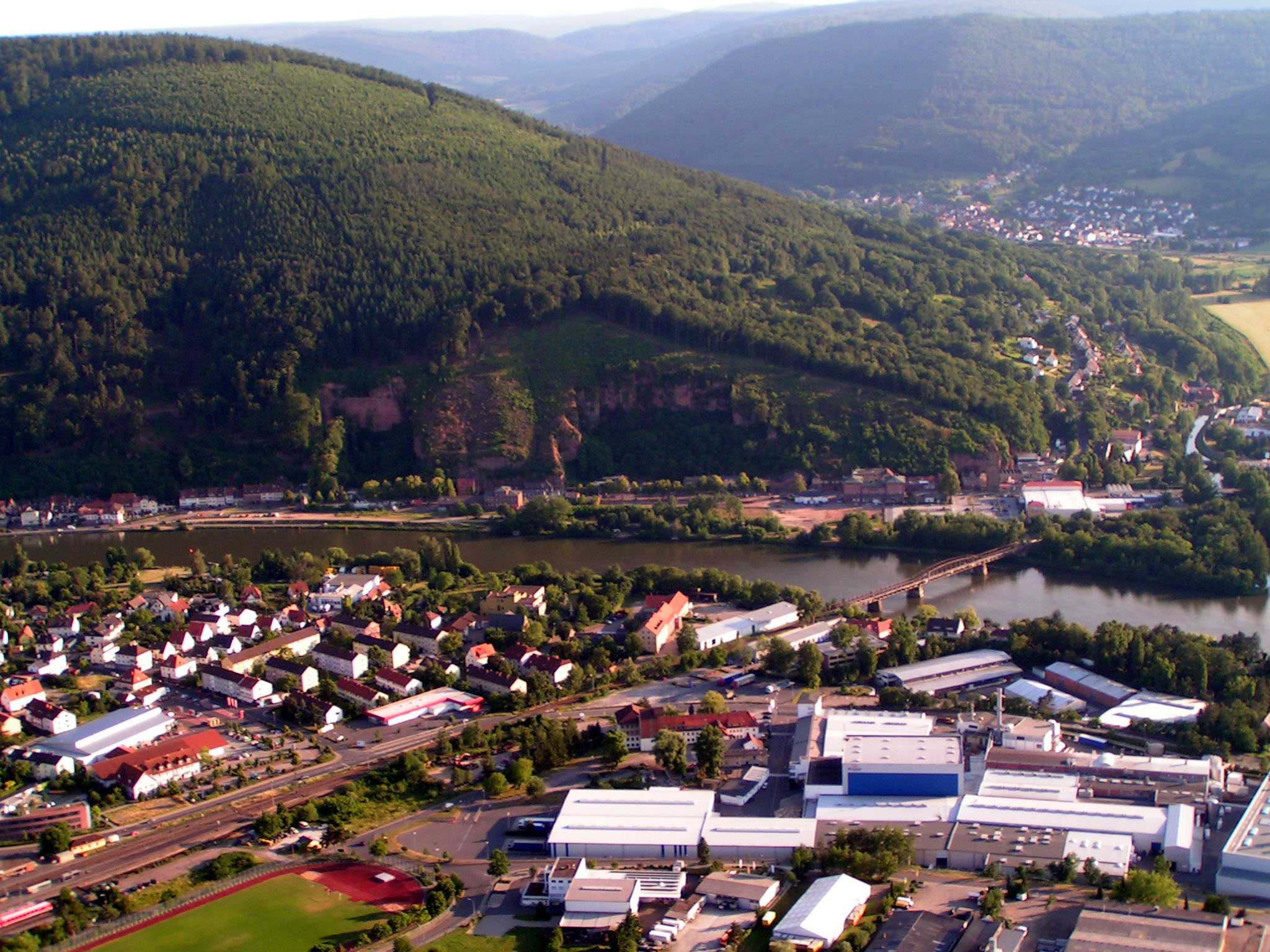 Aerial overview of the old Main Railwaystation in Miltenberg/Germany